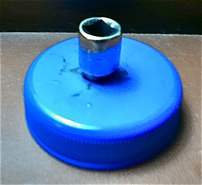 The lid of a gravity bong's bottle's lid.